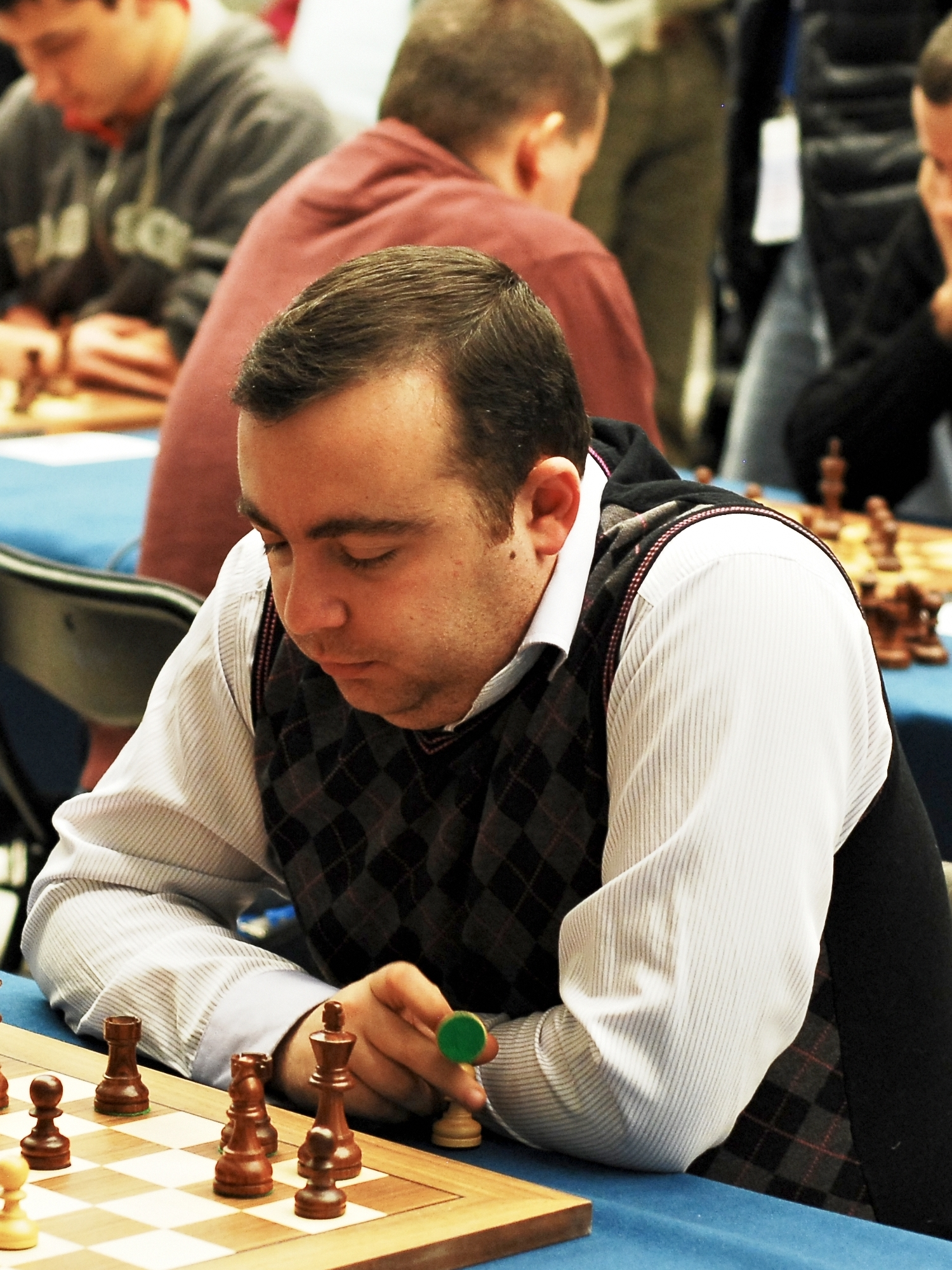 GM Tigran L. Petrosian, European Rapid Chess Championship, Warsaw 2012.